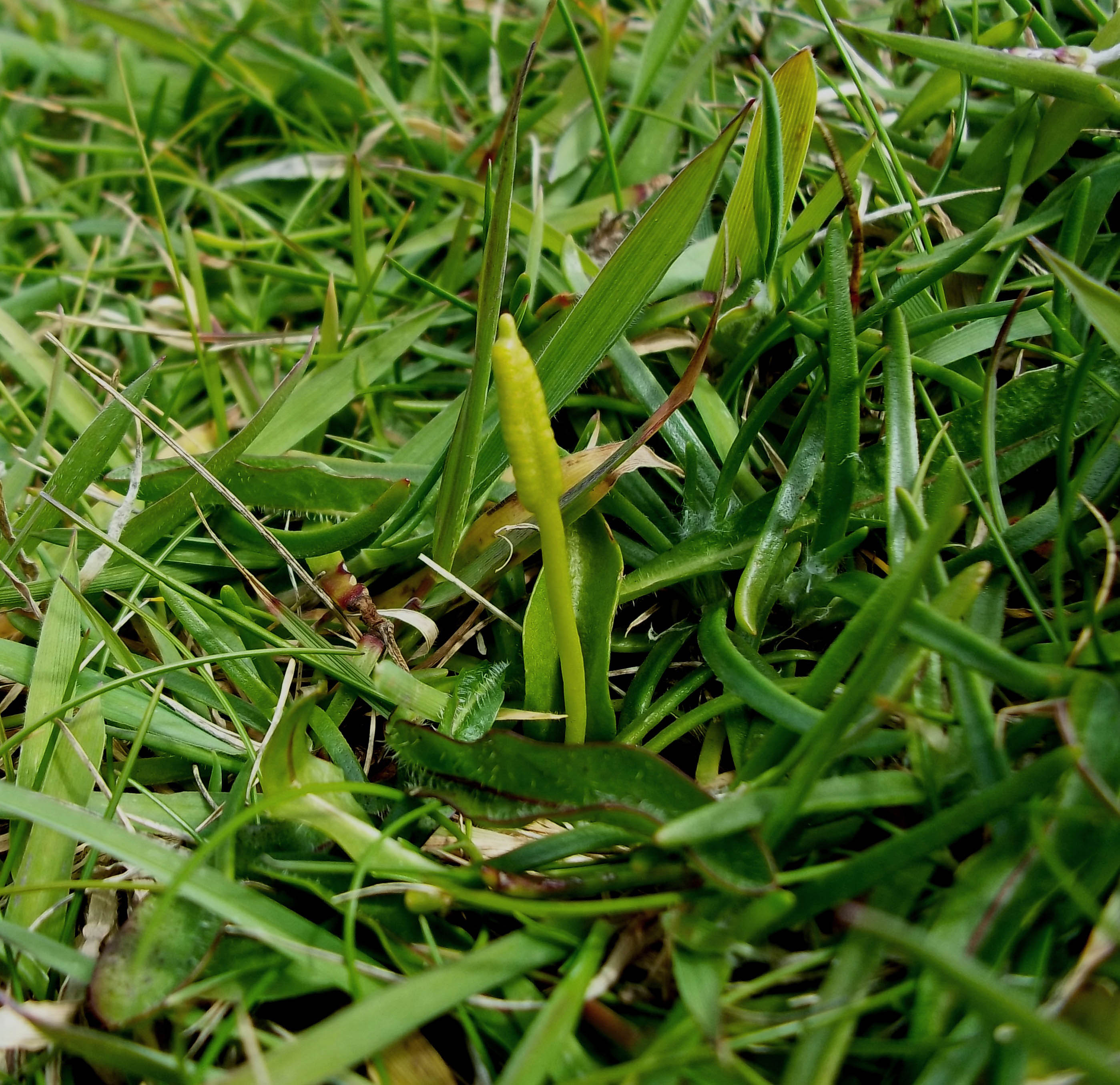 Ophioglossum azoricum — Small adder's-tongue fern. In coastal grassland, Dooncarton, County Mayo, Ireland (June 2011).